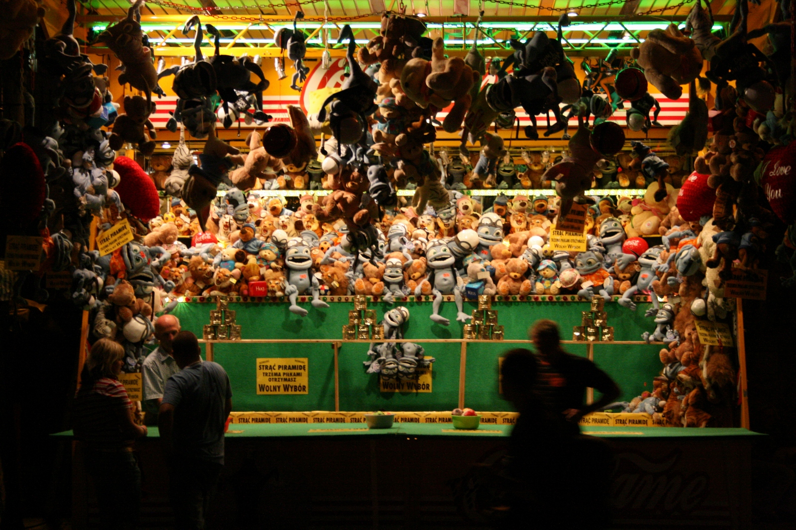 Sweepstakes - lots of creepy Crazy Frogs here!